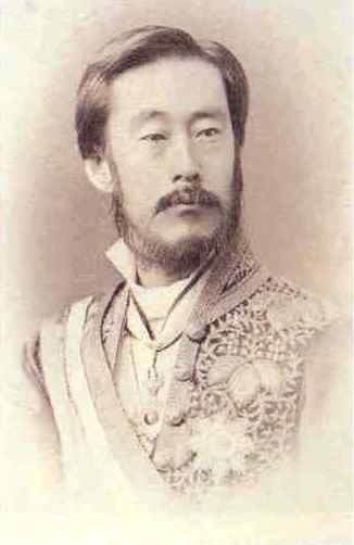 Nabeshima Naohiro (鍋島 直大?, October 17, 1846 – June 19, 1921) was the 11th and final daimyō of Saga Domain in Hizen Province, Kyūshū, Japan. Before the Meiji Restoration, his name was Nabeshima Mochizuru (鍋島 茂実?) and his honorary title was Hizen-no-Kami.